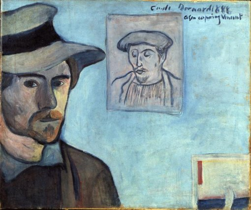 Self-portrait with portrait of Paul Gauguin, dedicated to Vincent van Gogh - "à son copaing [slang for "for his fellow"] Vincent, 1888" Van Gogh had asked Bernard for a portrait of Gauguin, but Bernard did not feel able to create such (Gauguin, 20 years older [twice the age of Bernard!], was already famous at this time). Van Gogh however was totally fond of Bernard's painting, for its simplicity, and compared it to "a genuine Manet". Gauguin painted, to "compensate", a self-portrait "with portrait of Bernard" in same year. Both paintings are held by VGM.